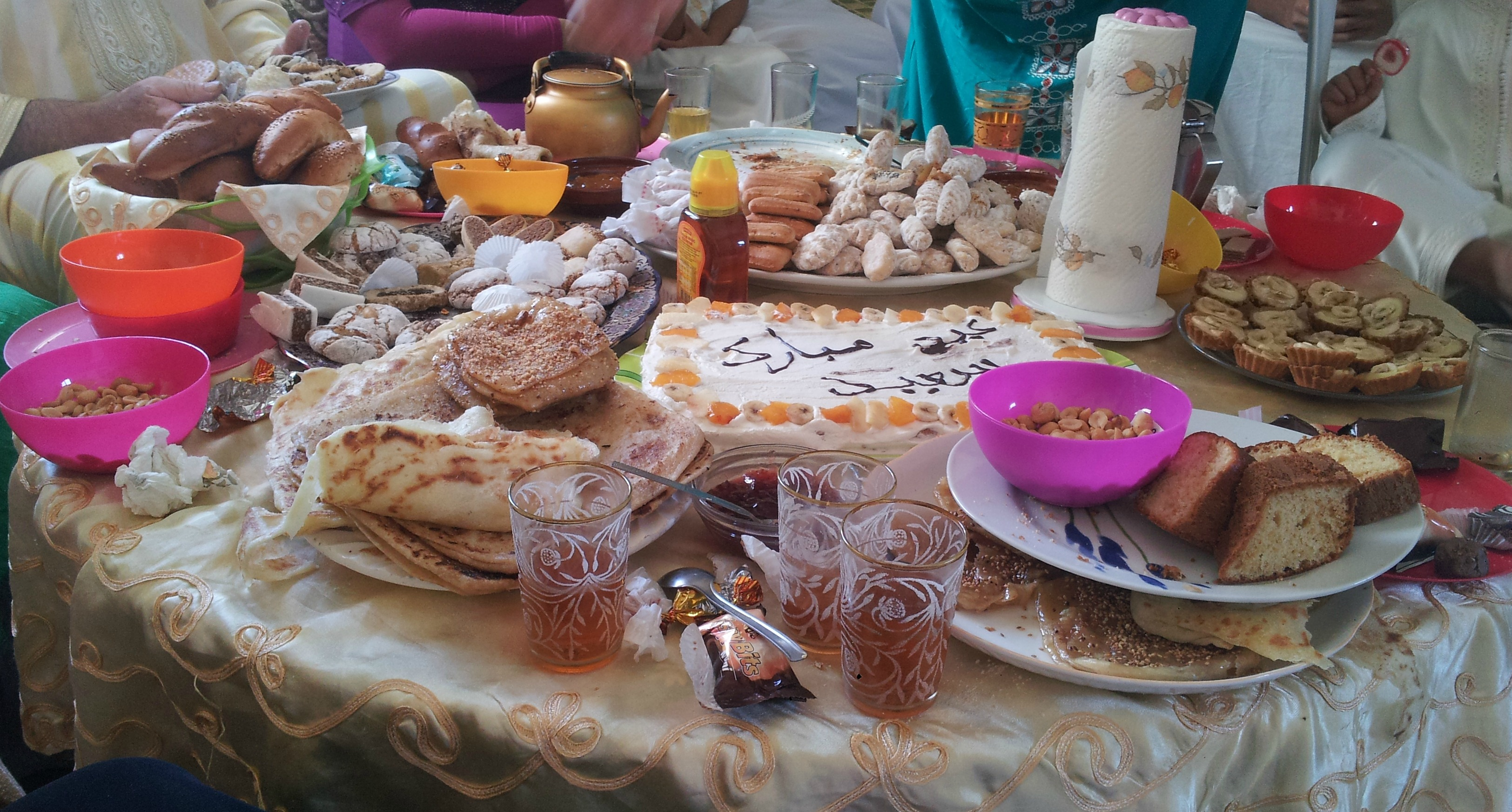 braekfast on eid, we have the best moroccan delight with mint tea and some special dishes. This is an image of food from Morocco